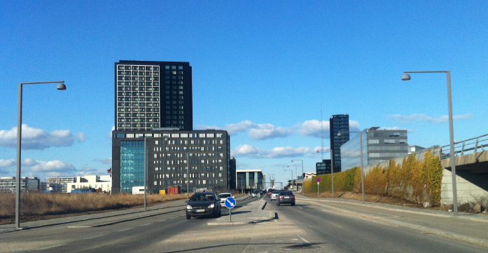 Ørestad from the south